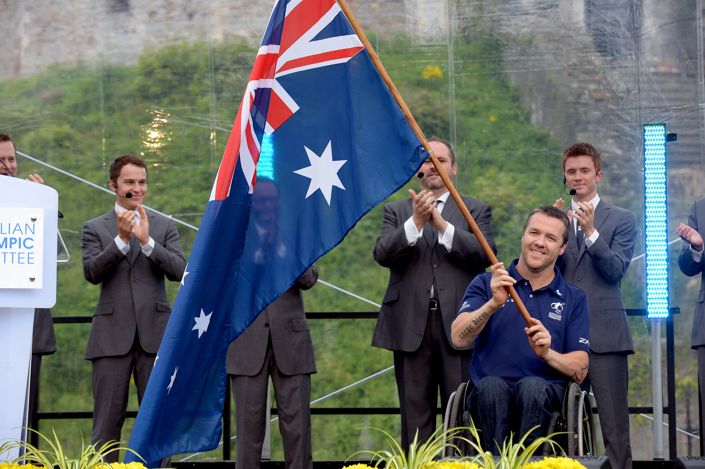 Australian wheelchair rugby star Greg Smith is announced as the Flag Bearer for the Australian Paralympic Team, London 2012 Paralympic Games. Ceremony photo, Cardiff Castle, Wales.